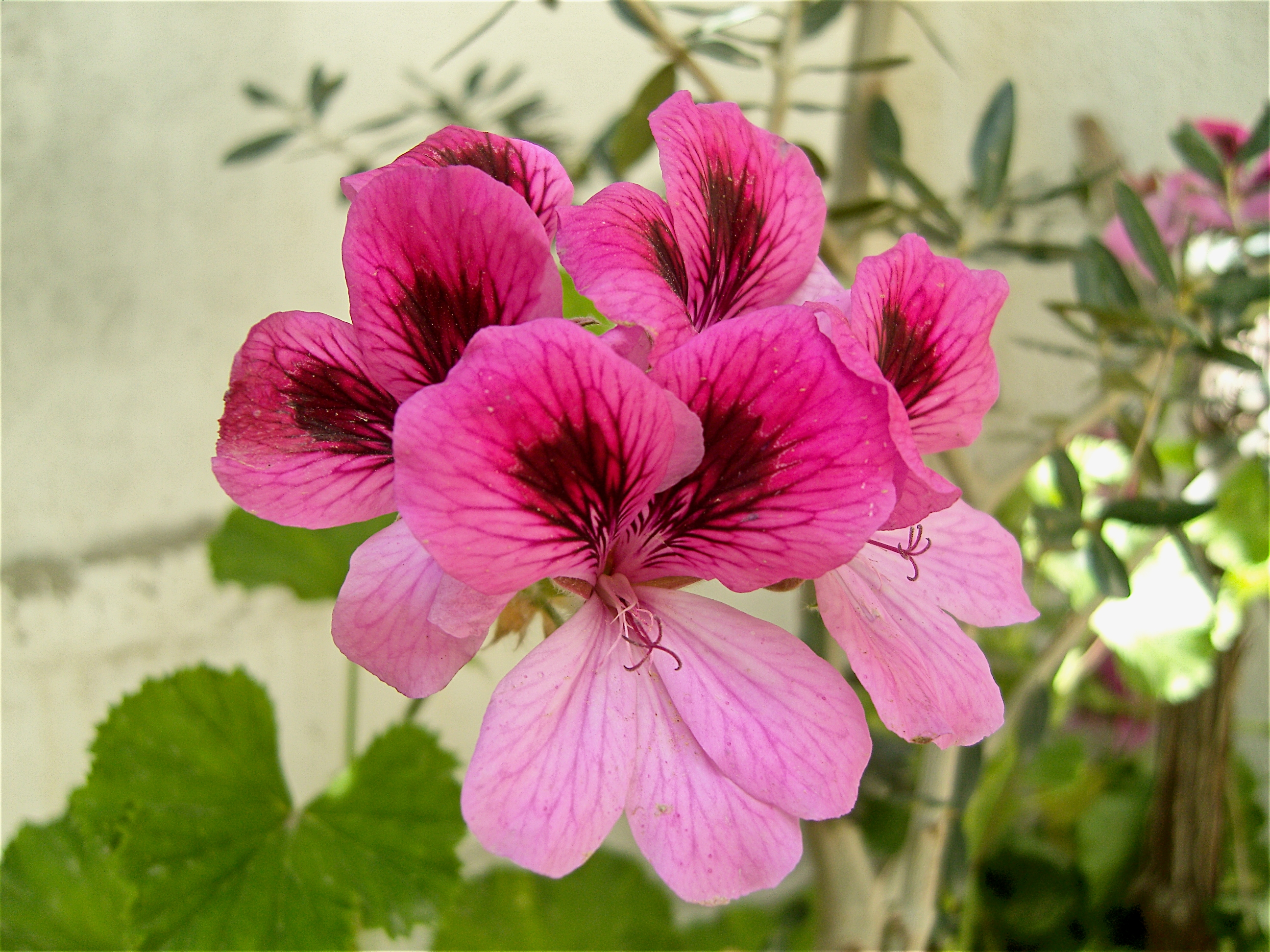 A ( Pelargonium Regal ) picture taken in Tunisia